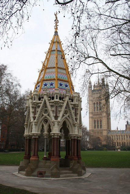 Buxton Memorial Drinking Fountain Drinking fountain by prolific Victorian church architect S.S.Teulon in 1834, moved to this site in 1957, with two plaques bearing the inscriptions. Erected in 1835 by Charles Buxton MP in commemoration of the emancipation of slaves in 1834 and in memory of his father Sir T.Fowell Buxton and those associated with him - Wilberforce, Clarkson, Macaulay, Brougham, Dr.Lushington and others. This plaque commemorates the 150th anniversary of the Anti-Slavery Society 1839 - 1989